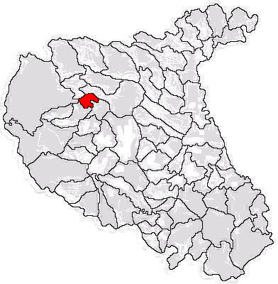 Limits of the Commune of Bârseşti